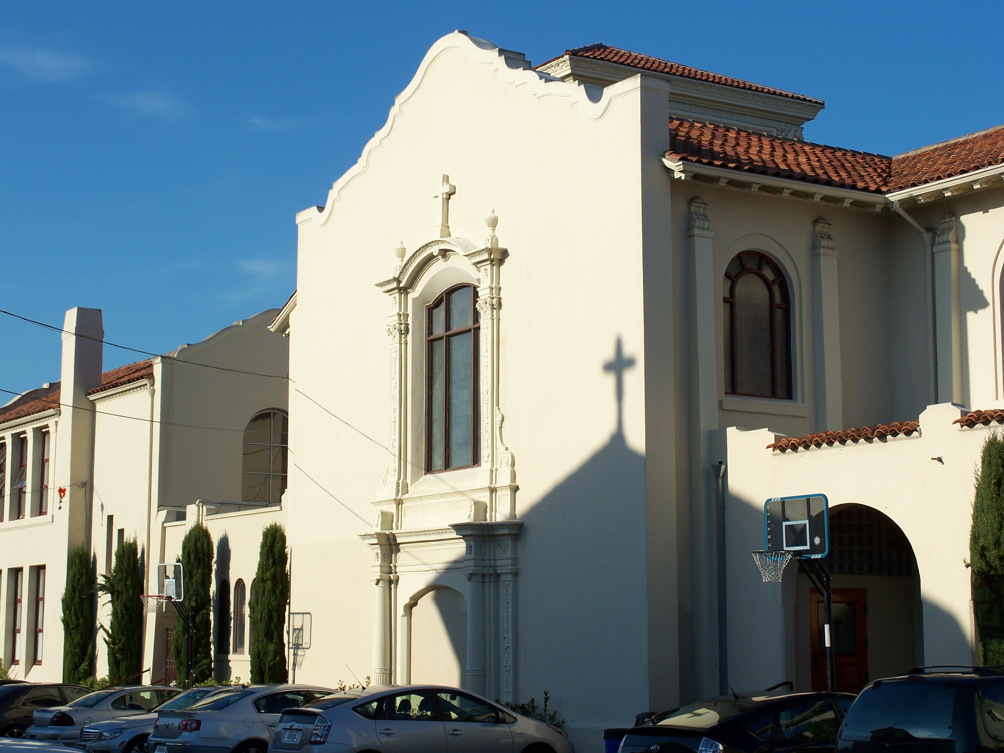 Saint Joseph Basilica. 1109 Chestnut Street. Alameda, California, USA